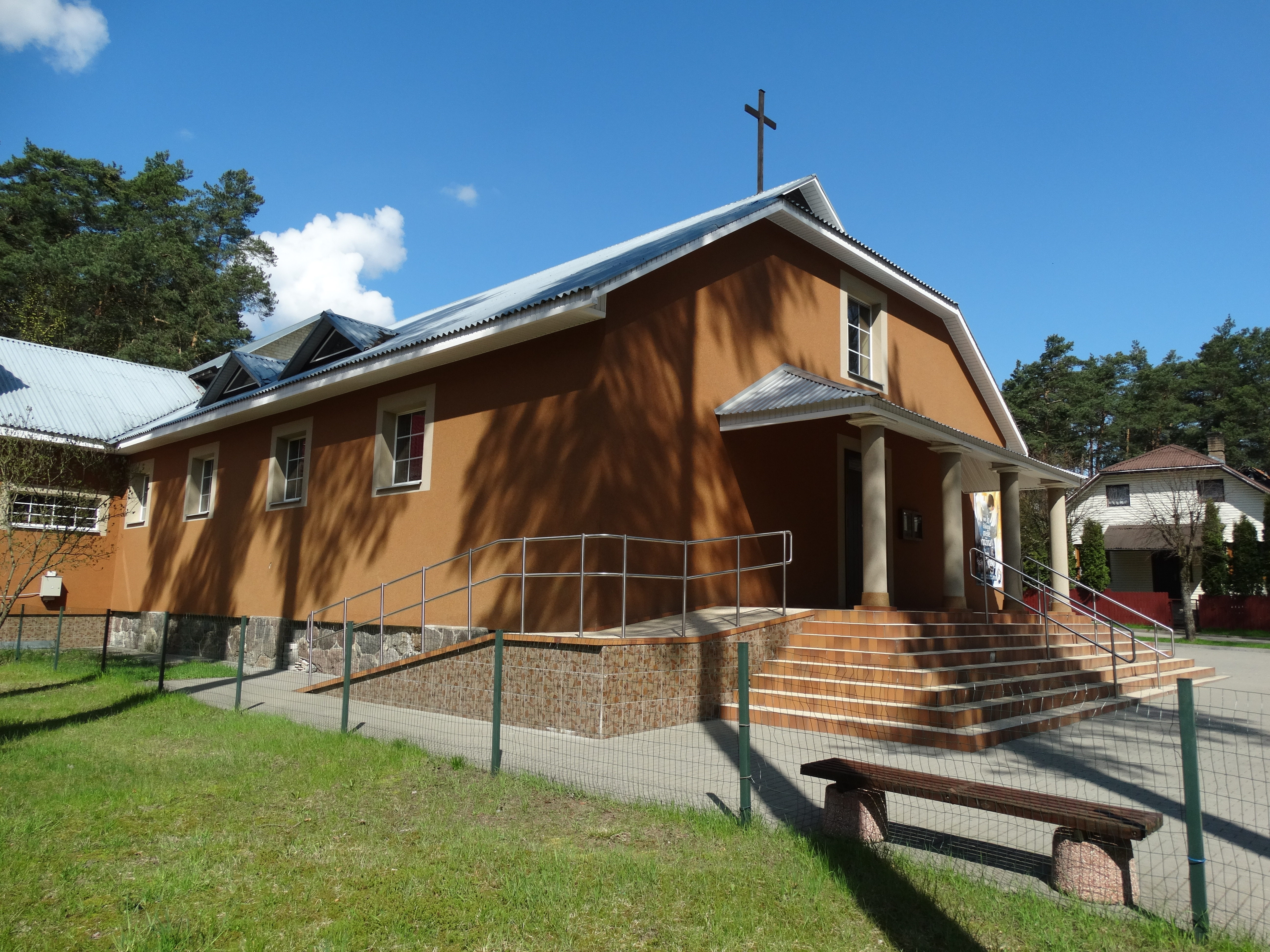 Blessed Michał Sopoćko church in Juodšiliai, Vilnius District, Lithuania